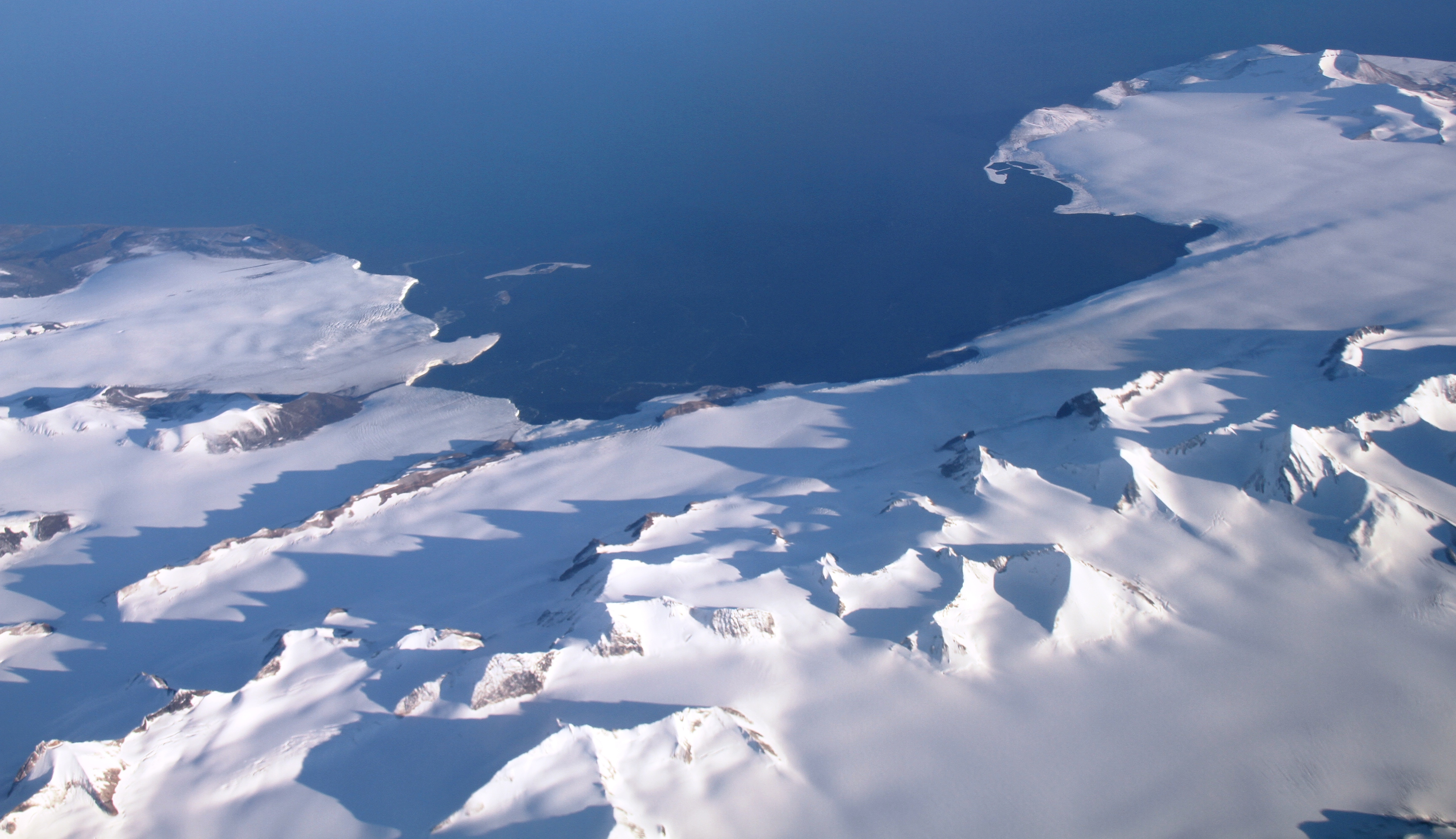 Aerial photo, from the west towards east, of the Sørkapp Land southernmost parts of Spitsbergen, Svalbard.